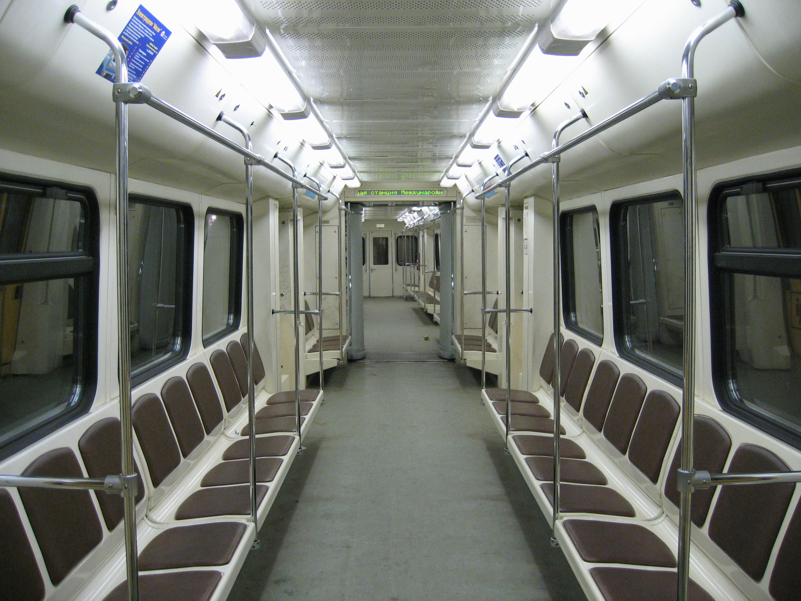 Train 81-740/741, view inside